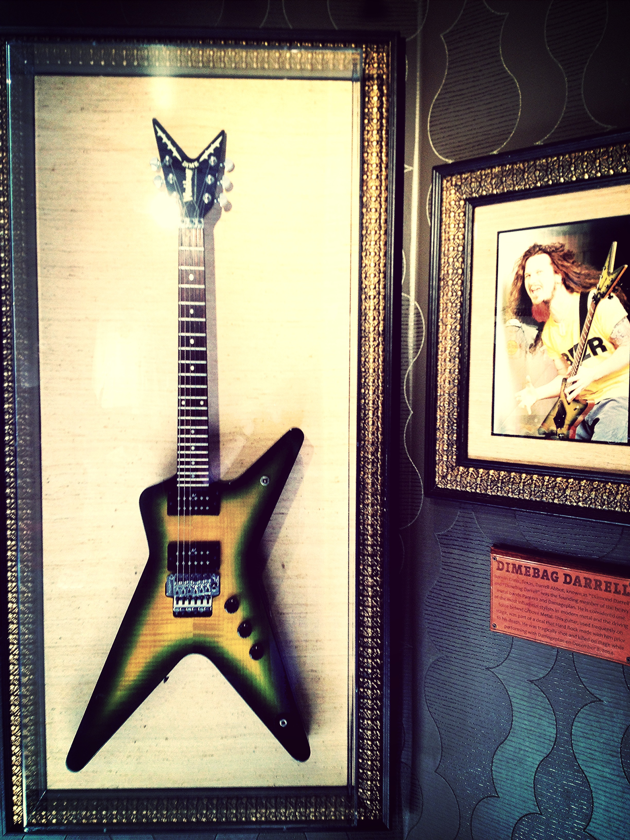 Washburn Dime 333, a Dean ML-style Dimebag Darrell signature guitar model